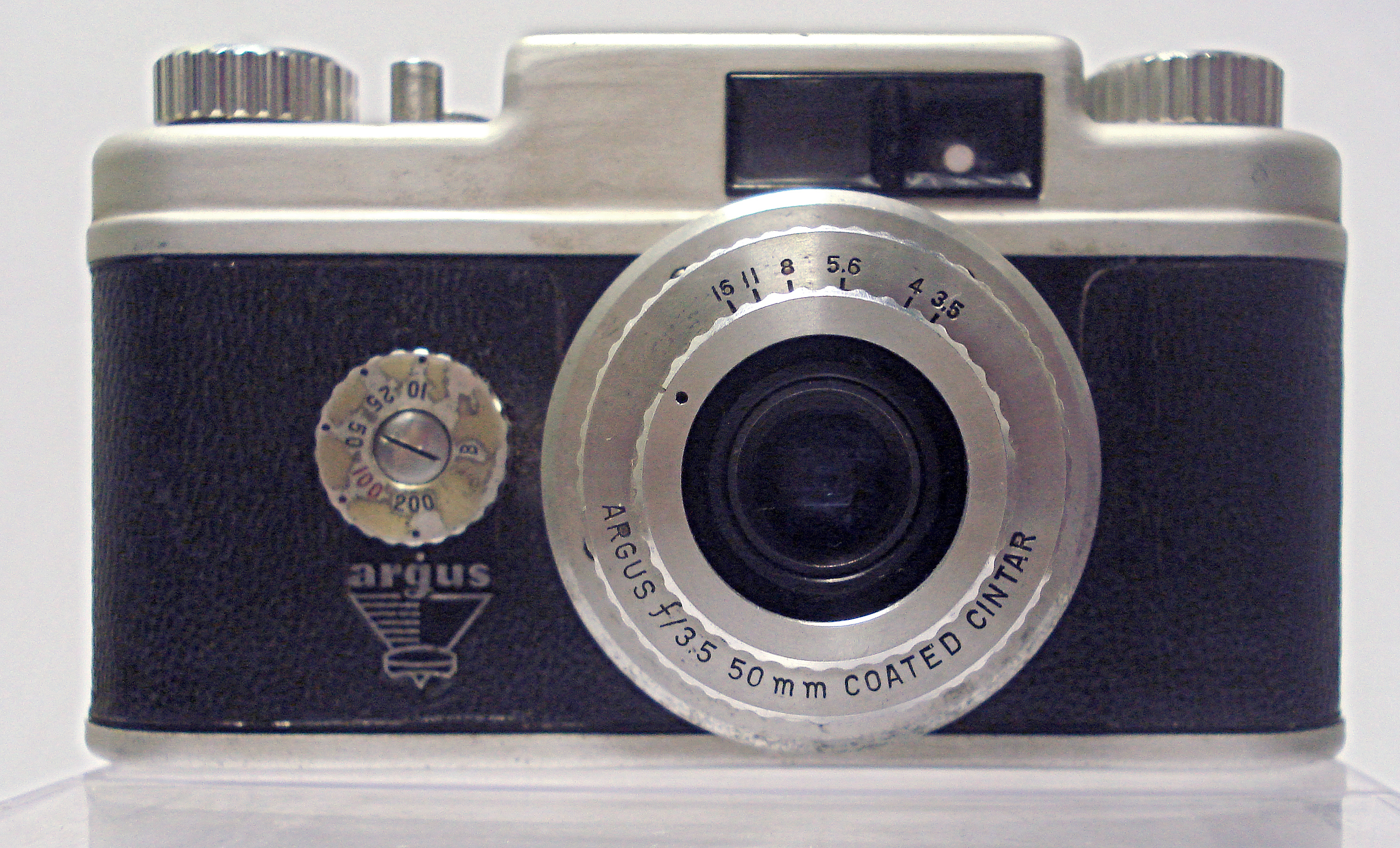 Argus 21 rangefinder camera. Creator Sarah Sofía said "This is my own work, I took it today from my grandapa's (RIP), old camera."